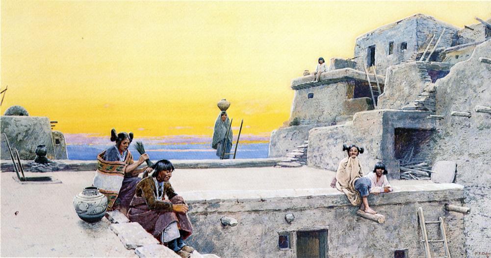 Hopi people and architecture.